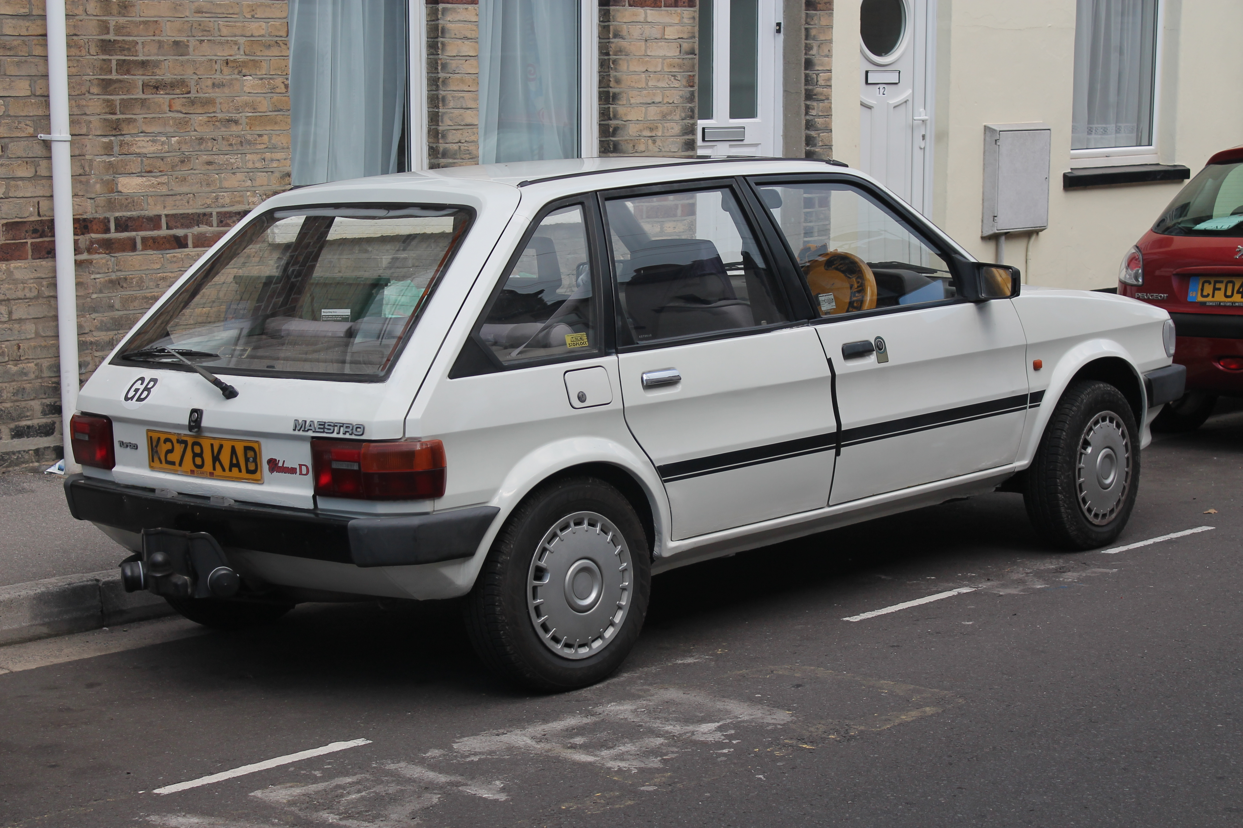 What a classic! Not! One of the worst cars ever built, and I was lucky enough to find one not on a scrap heap! This K reg example is "high spec" with its 2 litre turbo diesel engine and trim level "clubman". Looking (surprisingly) good for its age, and the build quality. Very pleased to spot this. The tax expires in October of this year, so I wonder if it'll be renewed? Seen in Weymouth, Dorset, 6/9/2013